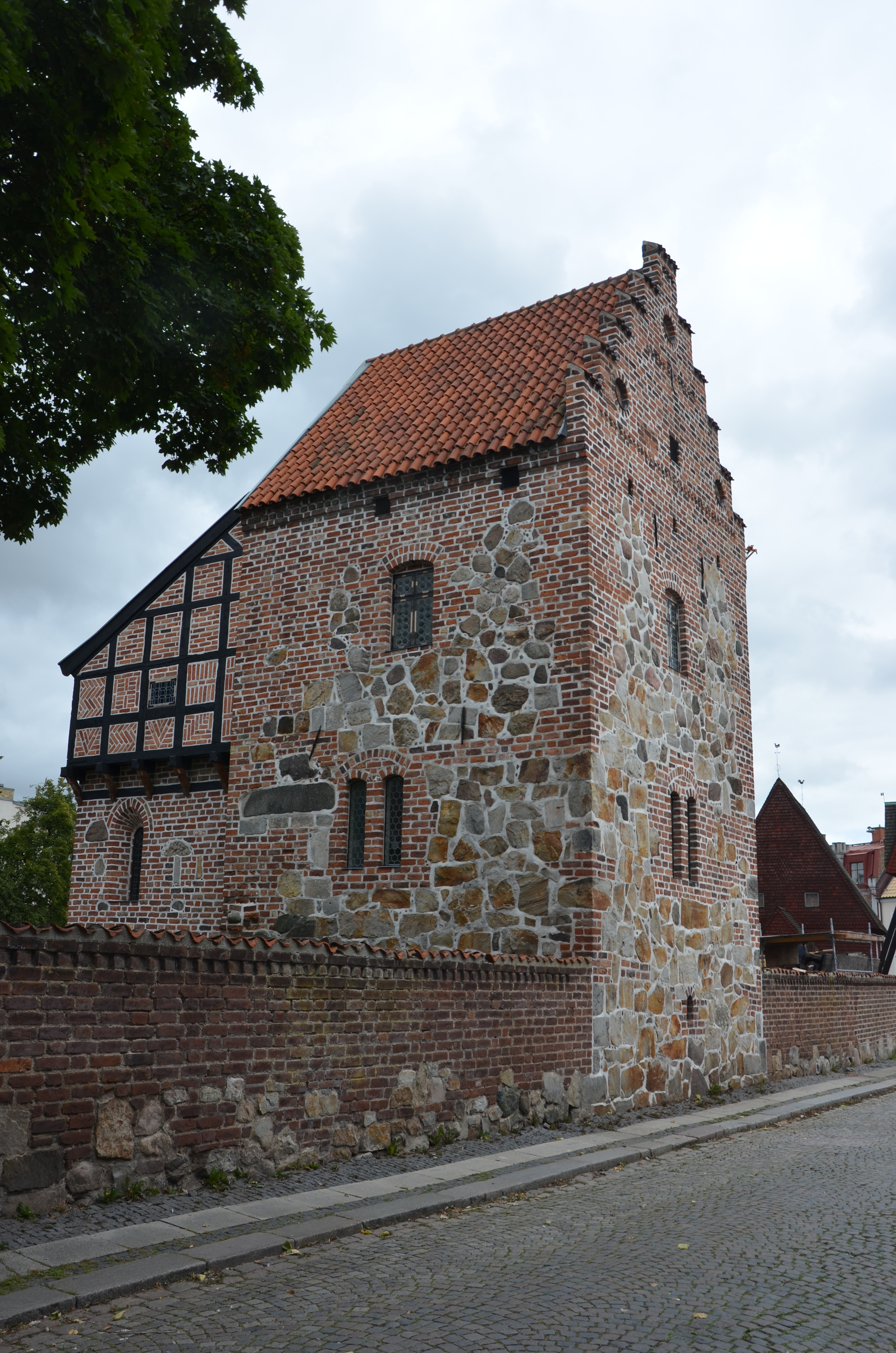 Dekanhuset, eller Kalendehuset, Acdelgatan i Lund